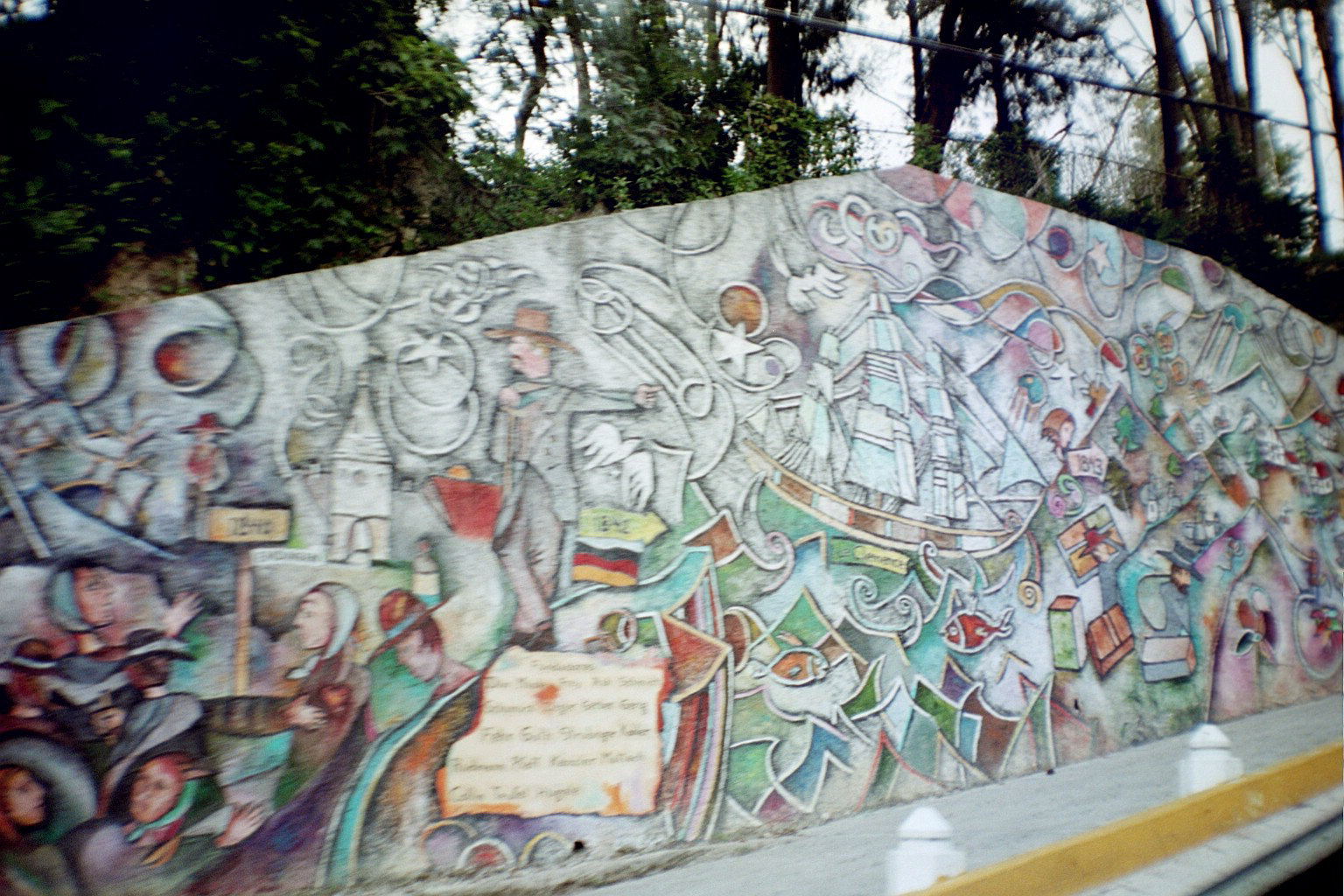 Mural in Colonia Tovar, Venezuela.